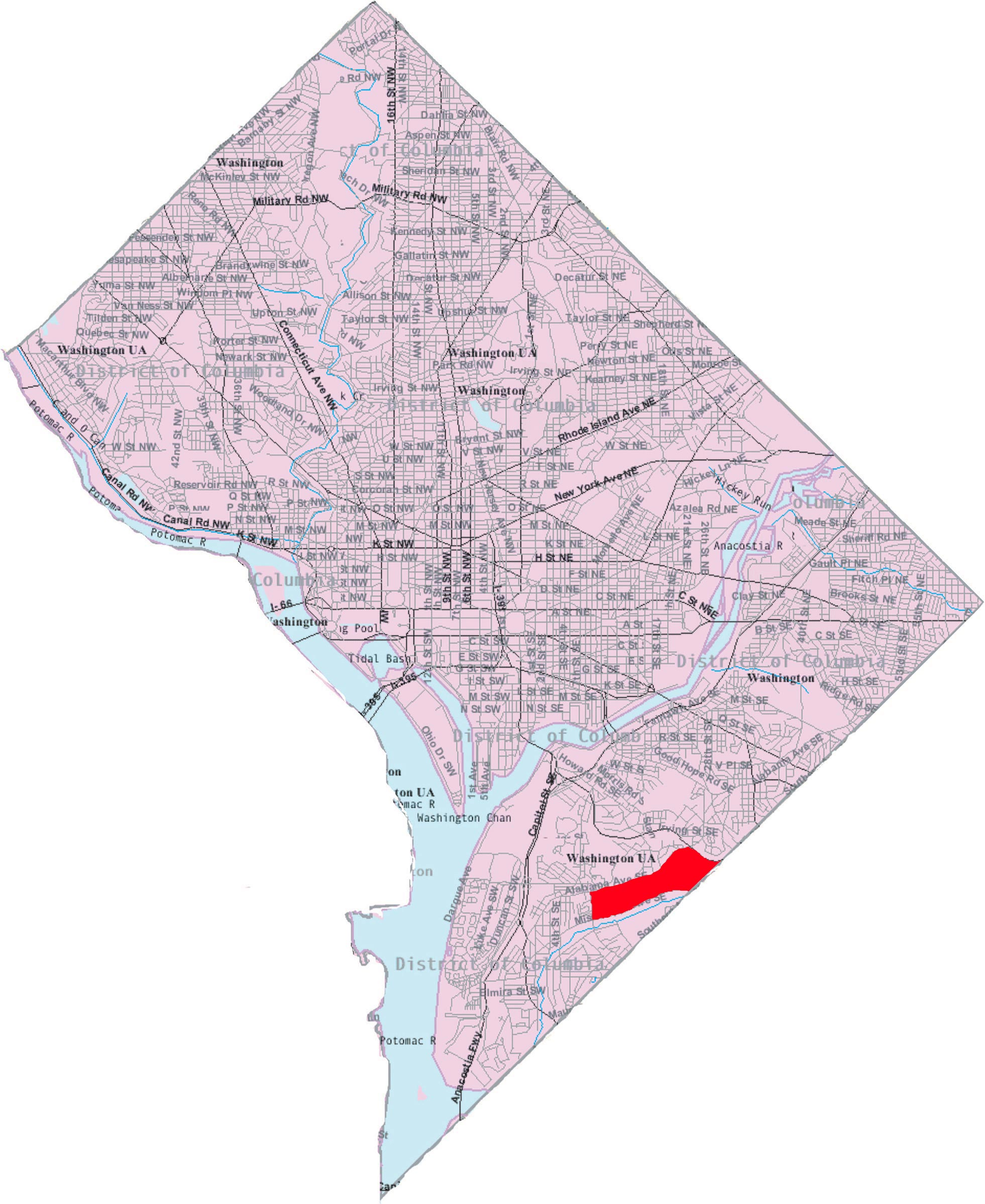 This image is a modified version of a self-generated reference map from the U.S. Census Bureau's American Factfinder at by Wikipedia user Msclguru.